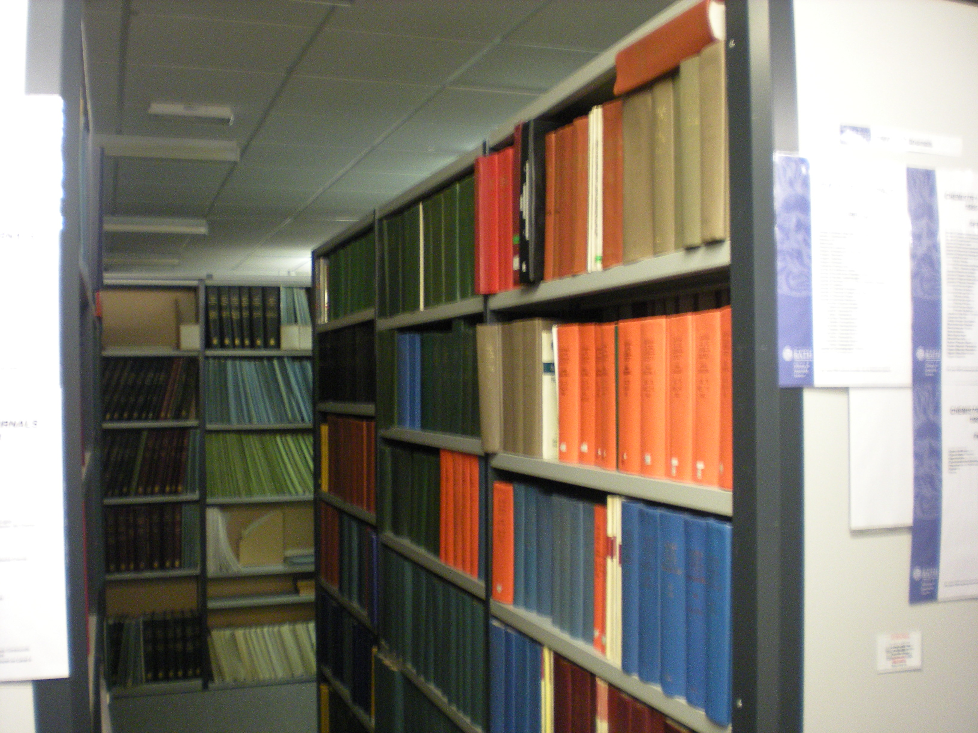 Bath library archive